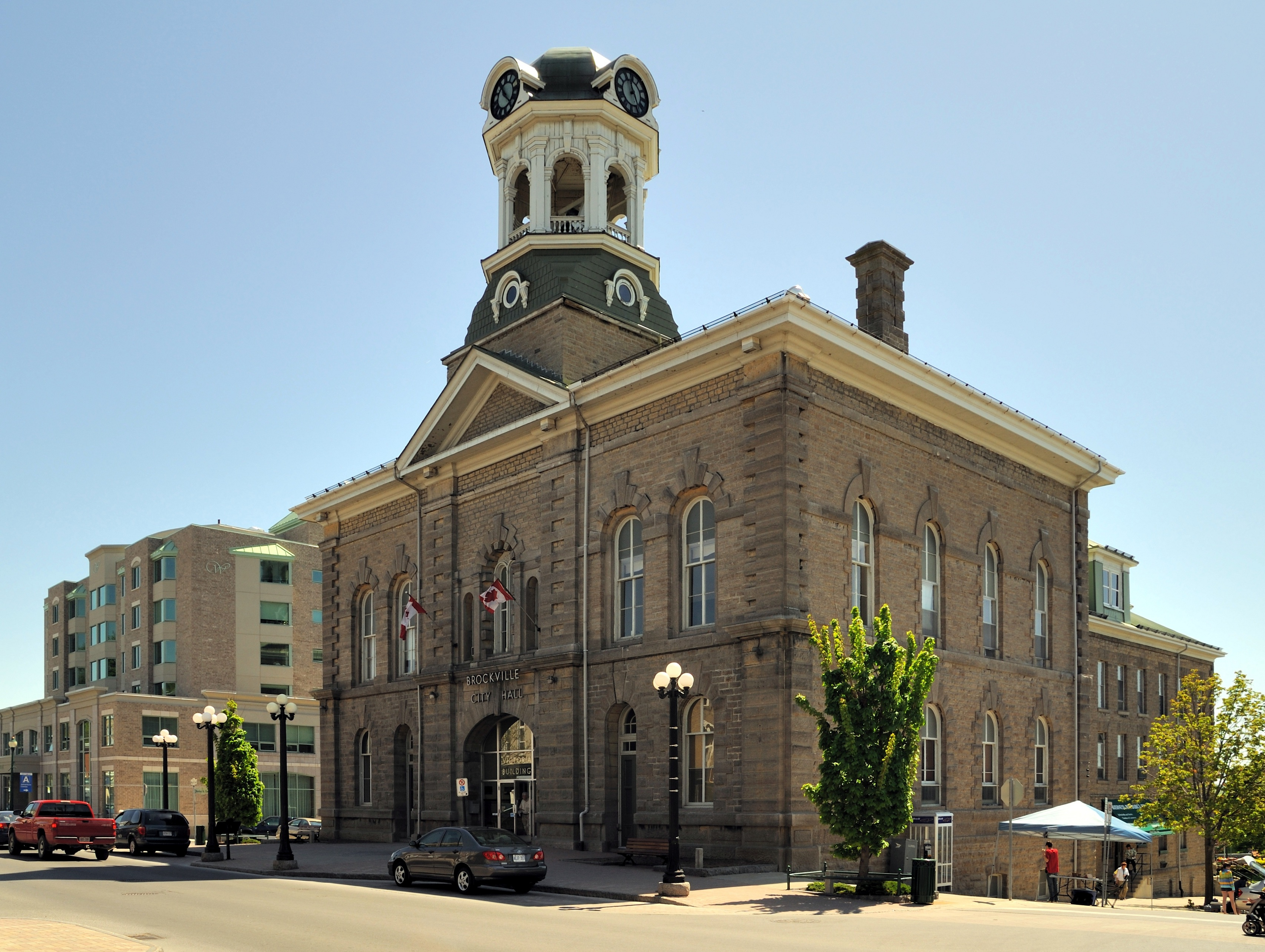 Brockville: Town hall, built in 1862-64 as a concert hall